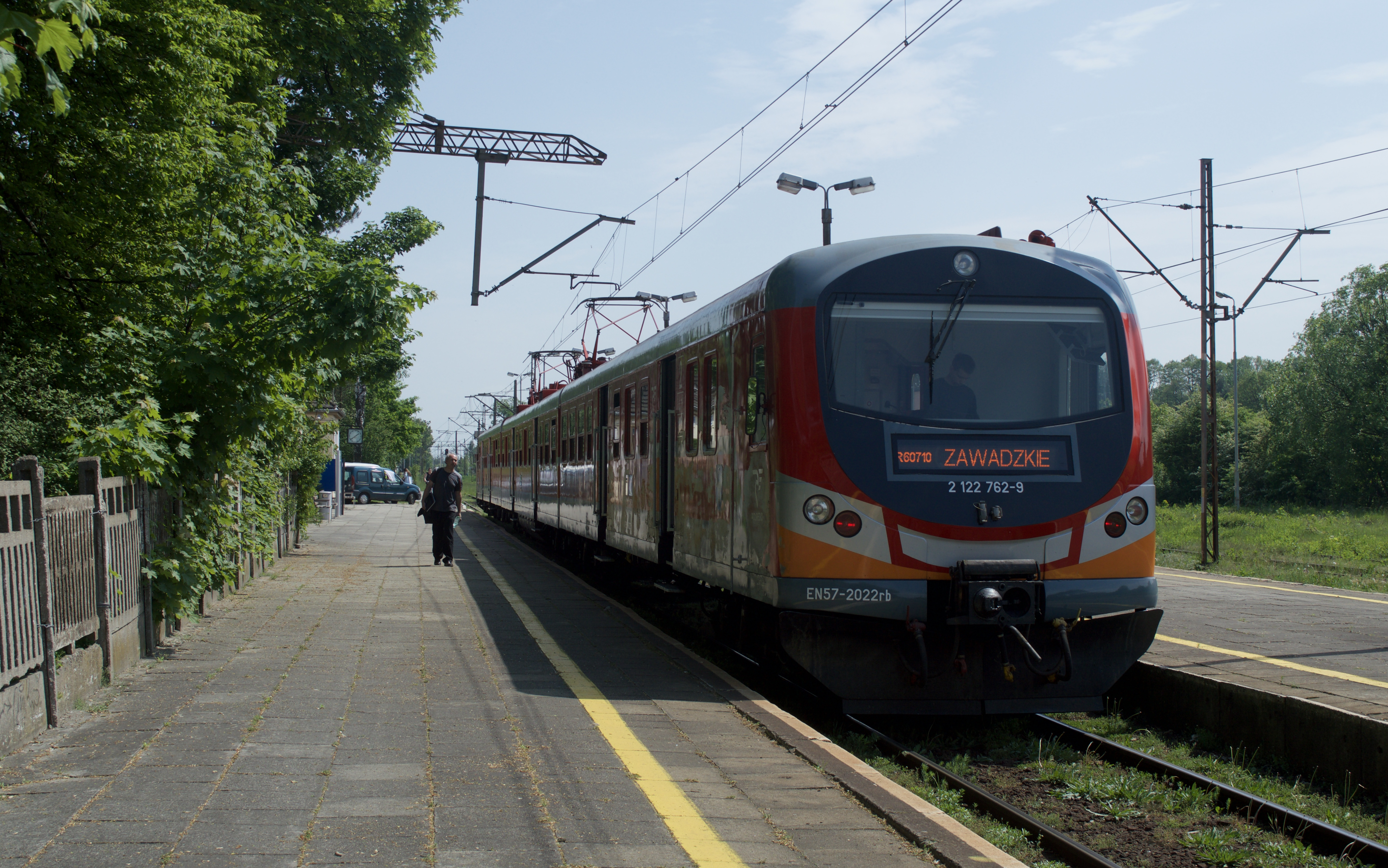 PolRegio EN57 no. EN57-2022 at Zawadzkie on 9 May 2018. With a short turnaround time, the driver is preparing the train ready for it's next working, train R60741, 13:40 Zawadzkie to Opole Zachodnie.